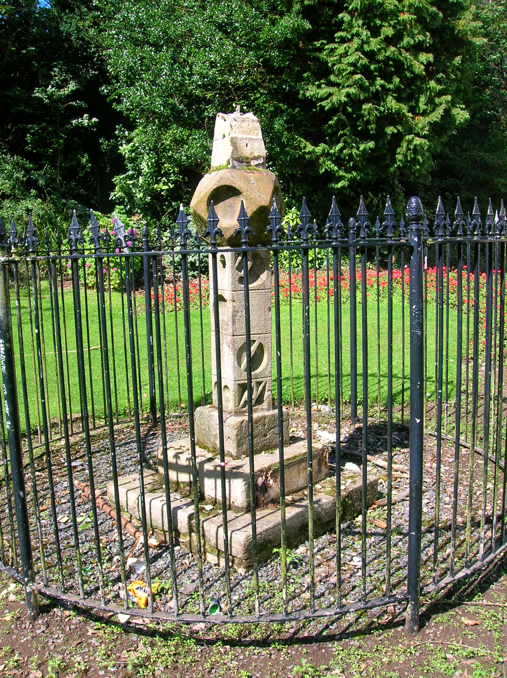 The West Kilbride Scottish Sundial made by Professor Robert Simson, North Ayrshire, Scotland. It was dated 1717 and carrys the intitals of his parents JS and AS.